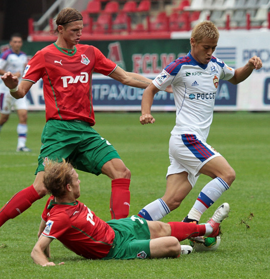 in action during Lokomotiv Moscow-CSKA Moscow, 28 July 2013